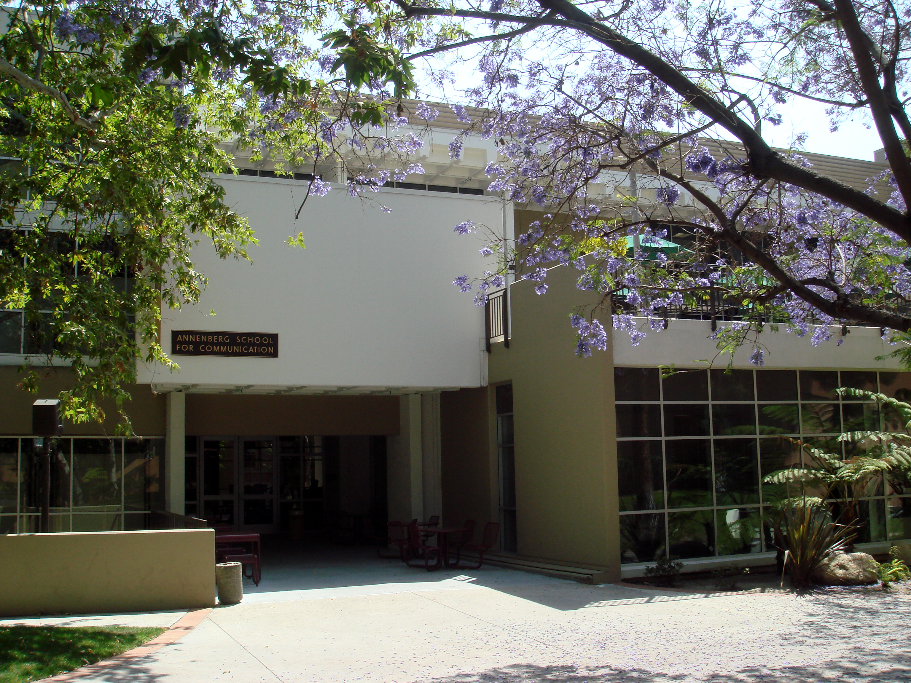 Entrance to the USC Annenberg School for Communication and Journalism. At the University of Southern California, Los Angeles